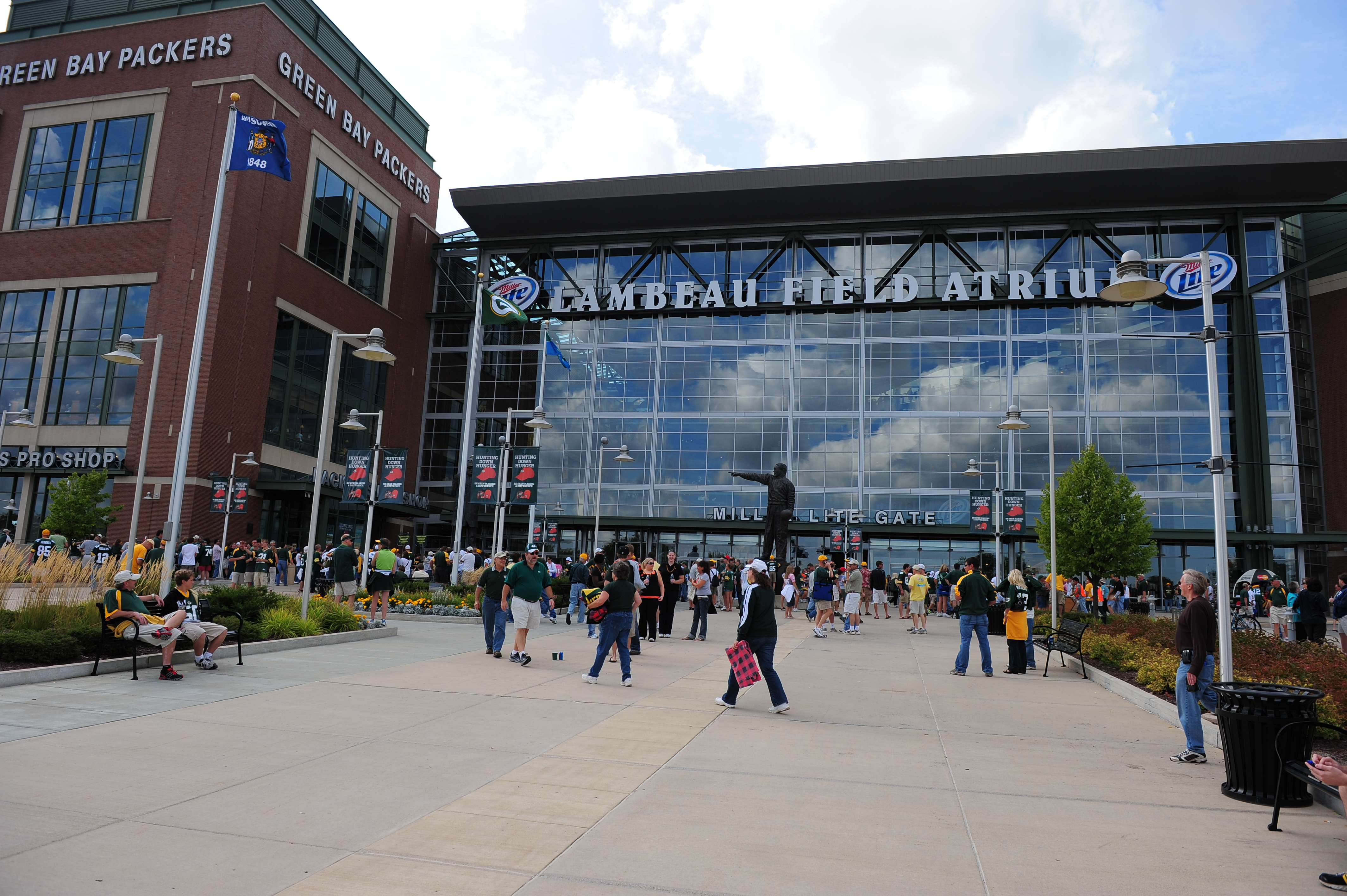 File name :DSC_9371.JPG File size :5.8MB(6120381Bytes) Date taken :2009/09/20 10:58:04 Image size :4256 x 2832 Resolution :300 x 300 dpi Number of bits :8bit/channel Protection attribute :Off Hide Attribute :Off Camera ID :N/A Camera :NIKON D3 Quality mode :N/A Metering mode :Matrix Exposure mode :Shutter priority Speed light :No 3 Exposure compensation :0 EV White Balance :N/A Lens :N/A Flash sync mode :N/A Exposure difference :N/A Flexible program :N/A Sensitivity :N/A Sharpening :N/A Image Type :Color Color Mode :N/A Hue adjustment :N/A Saturation Control :N/A Tone compensation :N/A Latitude(GPS) :N/A Longitude(GPS) :N/A Altitude(GPS) :N/A